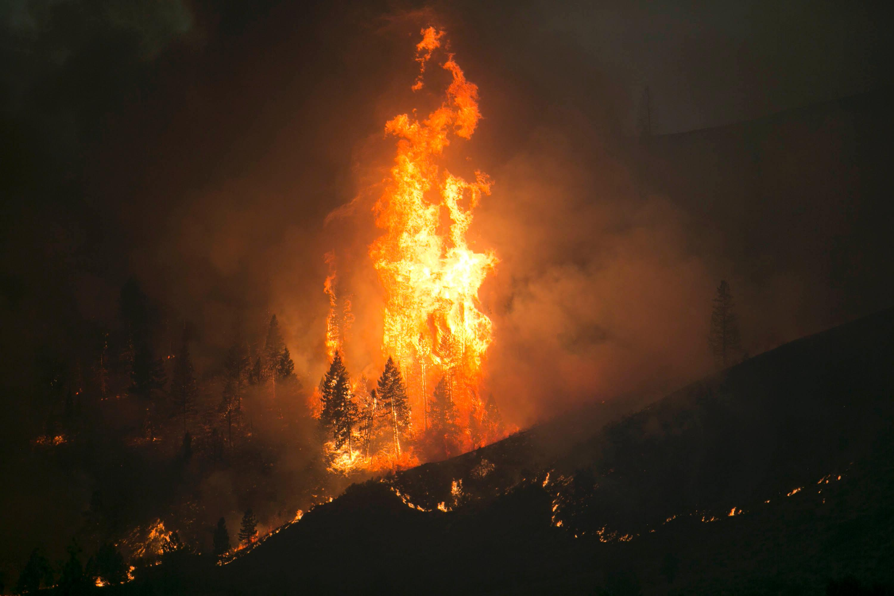 The Elk Complex Fire in the Boise National Forest near Pine, Idaho began on 8 August 2013 by lightning has consumed approximately 98,413 acres (39,826 ha) and is approximately 5% contained. U.S. Forest Service photo.